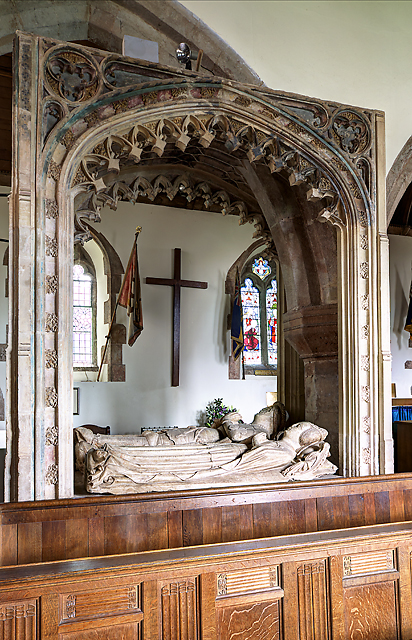 Monument to John Harington, 4th Baron Harington and his wife, St Dubricius Church, Porlock, Somerset